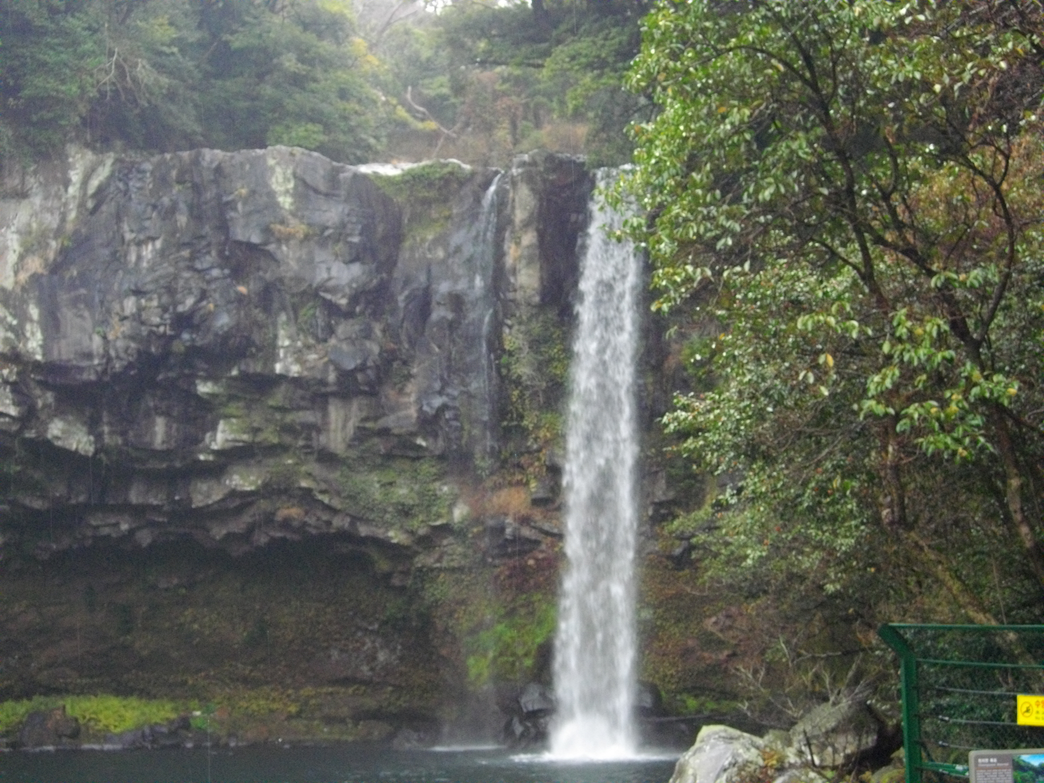 Cheonjiyeon Waterfall